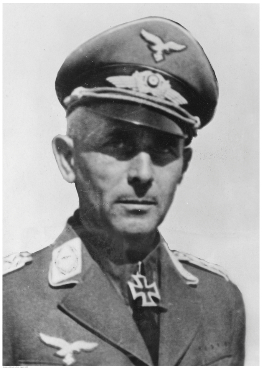 Major General Paul Conrath (1896-1979).